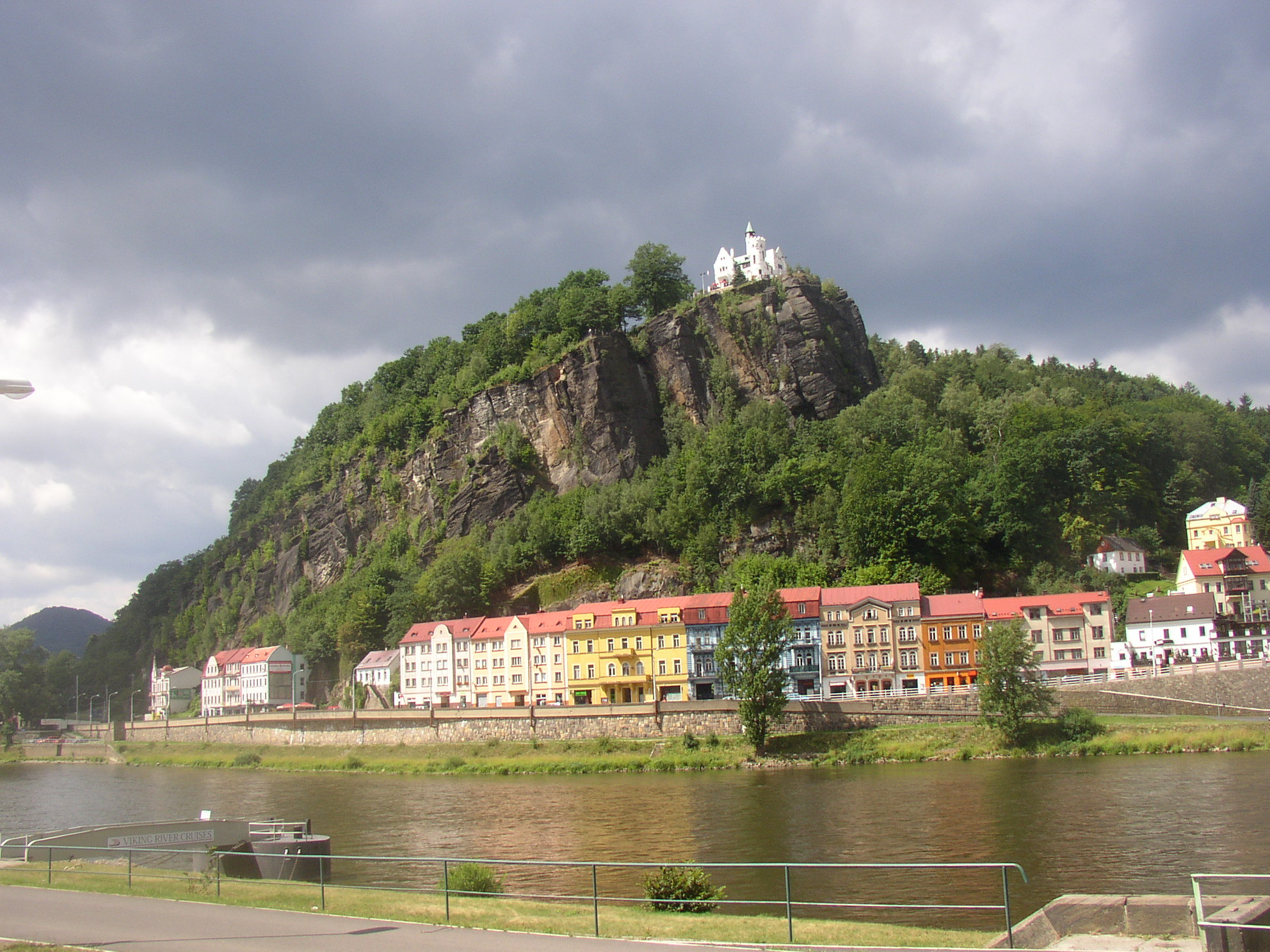 Shepherd's Wall - a rock with a restaurant and a lookout point on its top, Děčín, Czech Republic.